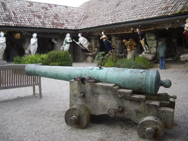 Valhalla, Tresco Abbey Gardens The Valhalla Museum, Tresco Abbey Gardens. The cannon is from the wreck of HMS Association which sank in 1707.